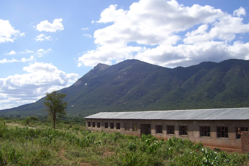 Reaching Hearts for Kids has an orphanage project and school project in Namanga, Tanzania. They are building another school, and interested in establishing a tree nursery and planting lots of trees near the school.